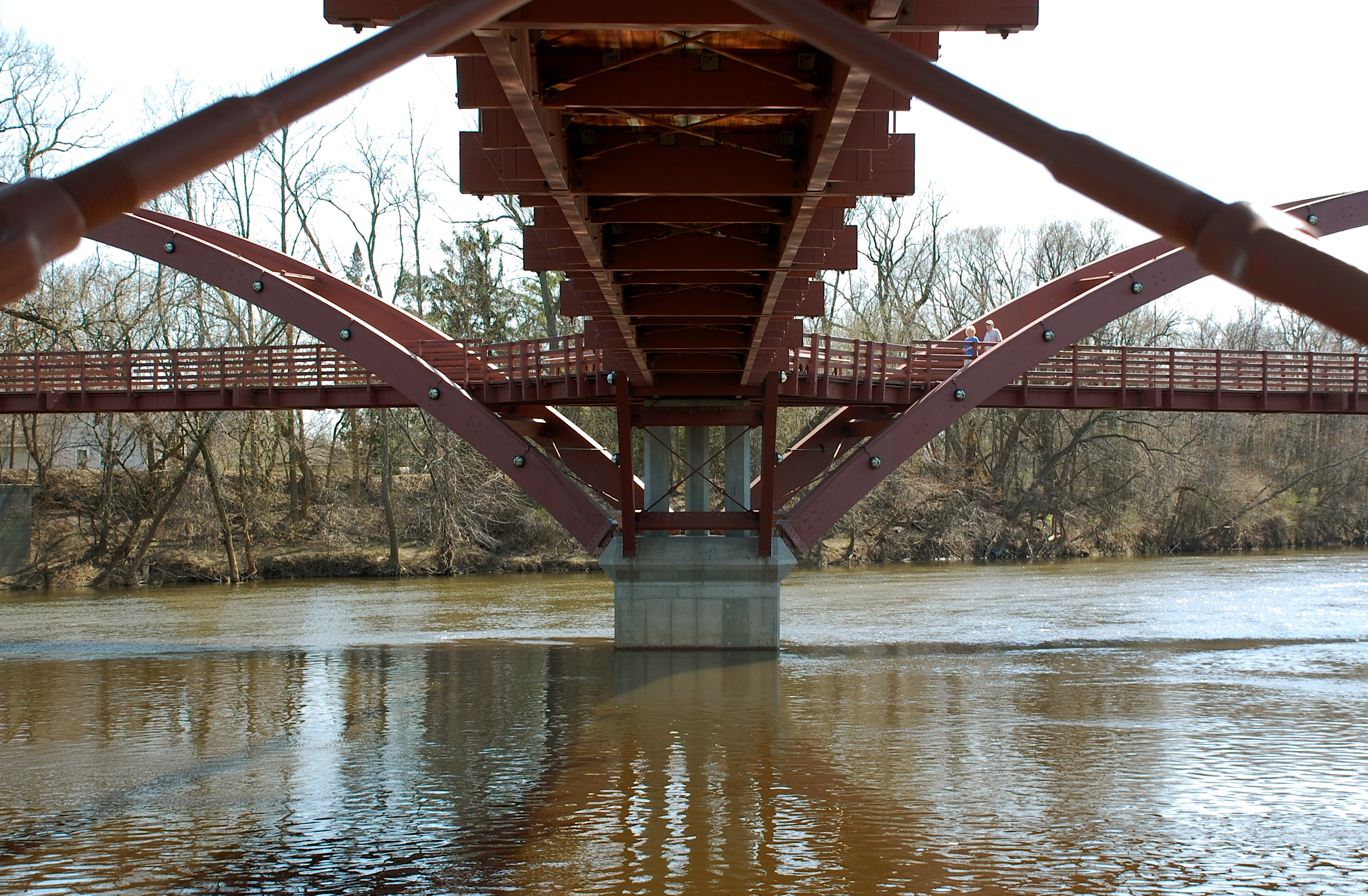 Tridge undercarriage at center point